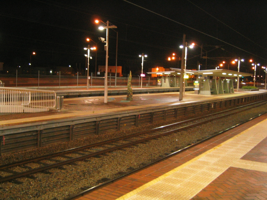 Transperth Claisebrook Train Station at night